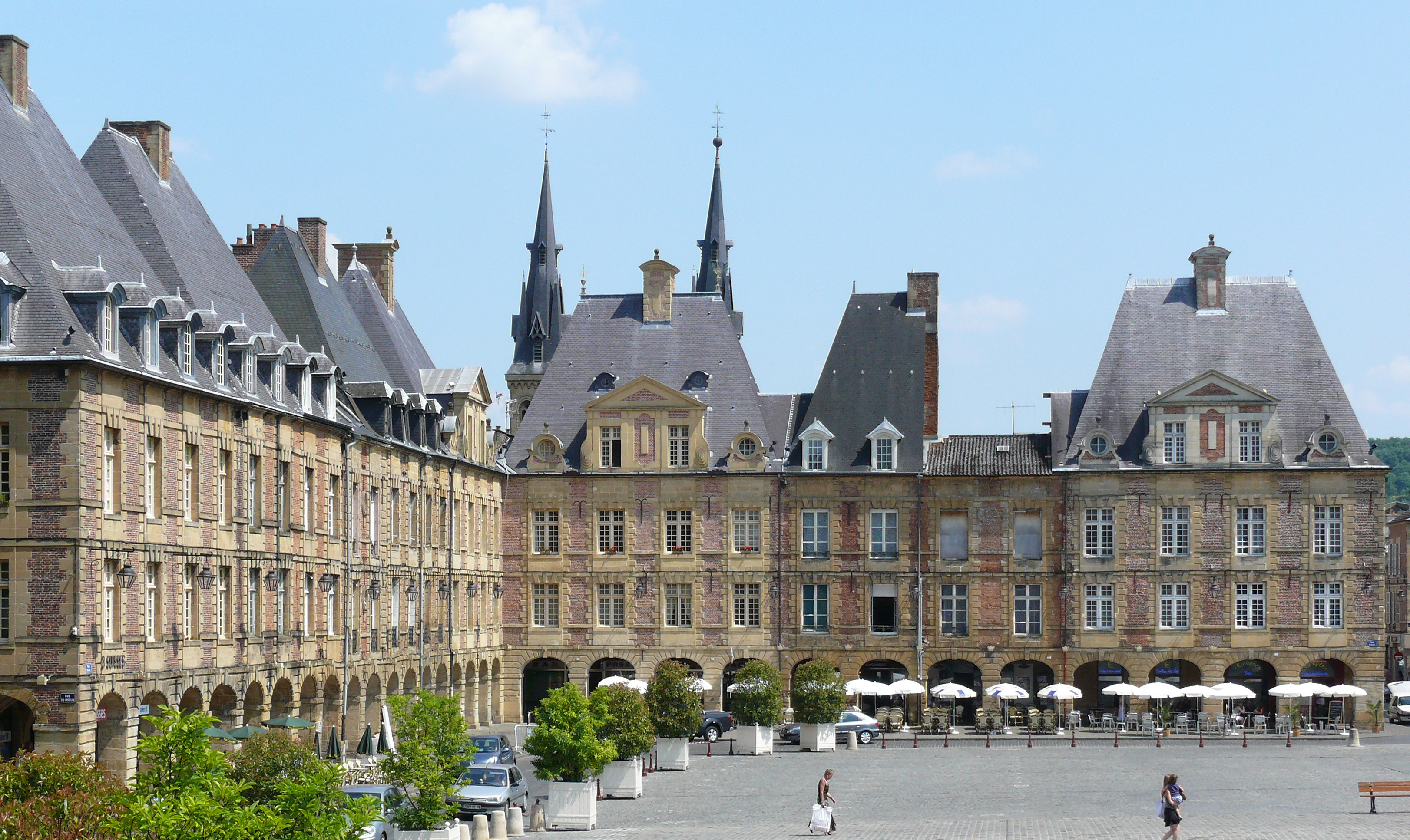 The Place ducale is the most important square of Charleville-Mezières. It was constructed in 1606 by Clément Métezeau. Charleville Mezières is a French town in the département des Ardennes and the region Champagne-Ardenne.